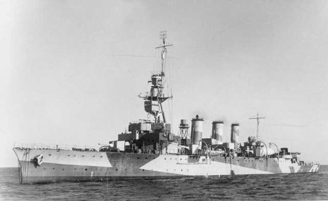 AWM Caption: "Port bow view of the cruiser HMAS Adelaide. She is shown in her third armament configuration, armed with seven 6 inch and two 4 inch AA guns. Two 6 inch guns have been replaced in the waist by depth charge throwers; one of the guns has been remounted on the centreline aft, replacing a 4 inch AA gun. 20 mm Oerlikon AA guns are mounted port and starboard in the bridge wings, amidships and on the searchlight platform. The cruiser has been fitted with air search radar on her foremast, gunnery control radar on her main armament director and surface search radar on a platform forward of the fore funnel."